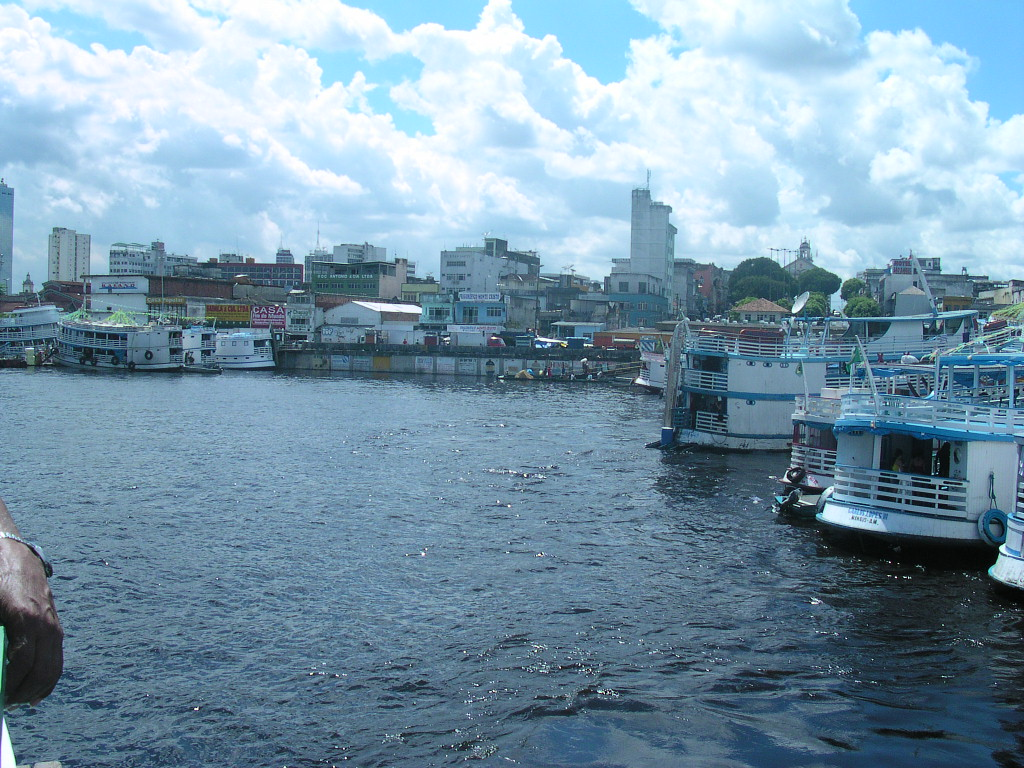 Author: Salina, Daniel. Source: Manaus, 2006.